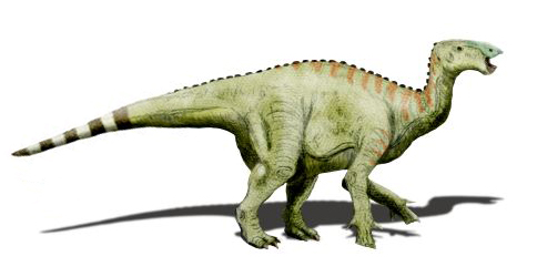 Hypselospinus